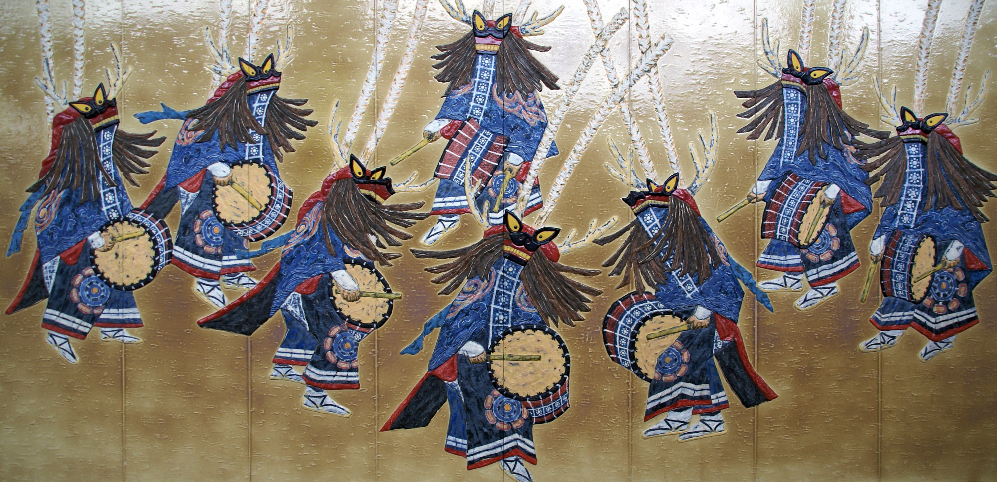 Hanamaki Airport in Hanamaki, Iwate prefecture, Japan